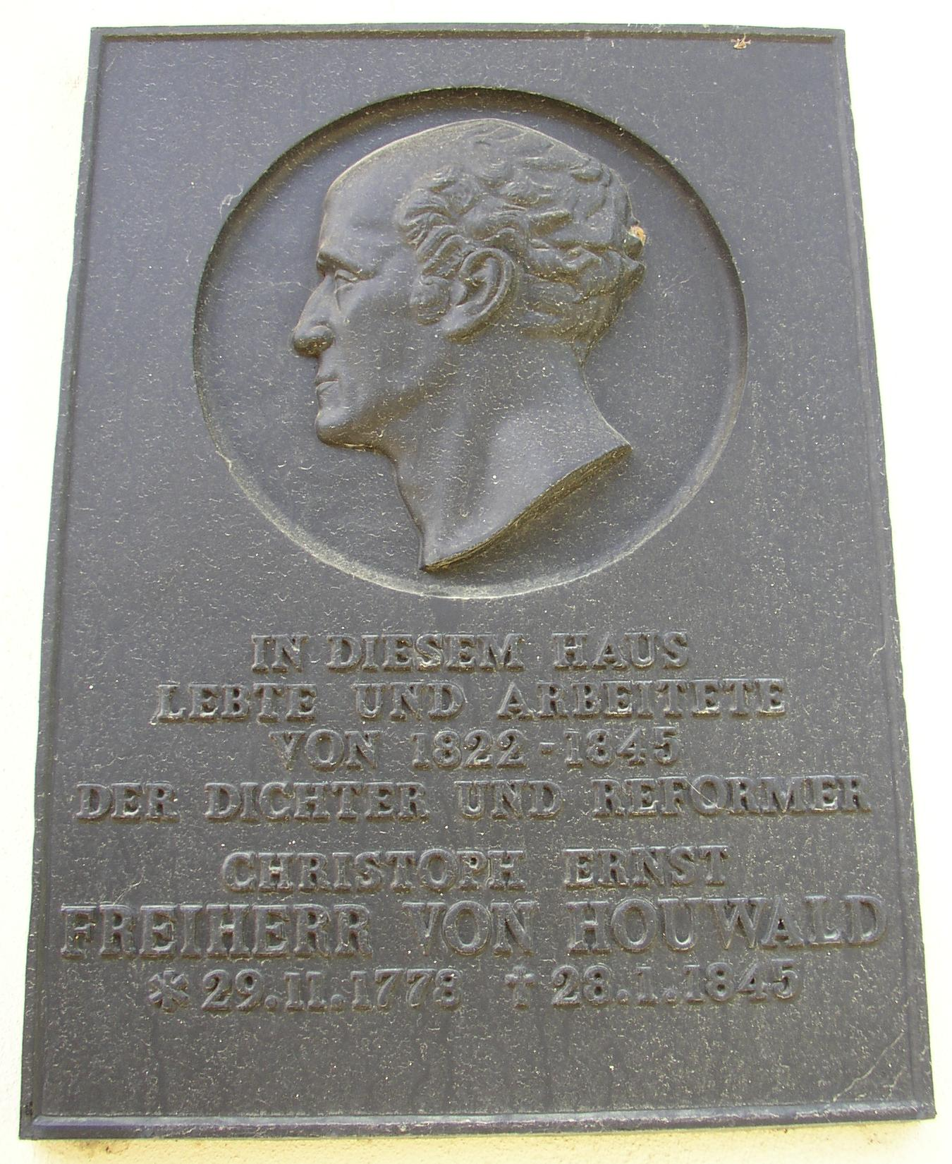 Memorial tablet to Ernst von Houwald in Lübben in Brandenburg, Germany